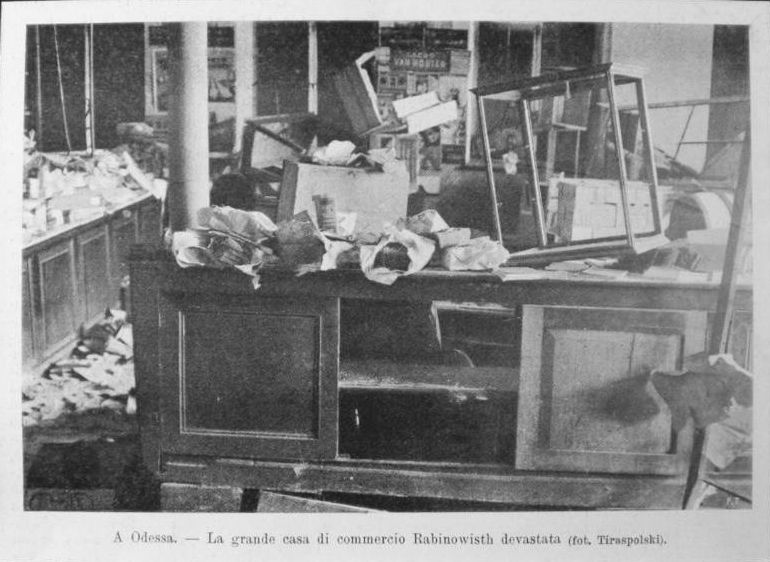 Old Carte Postale (Open Letter) with view of shop of Rabinovich after pogrom of Odessa in 1905